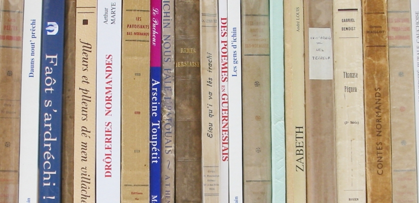 Books of Norman language literature